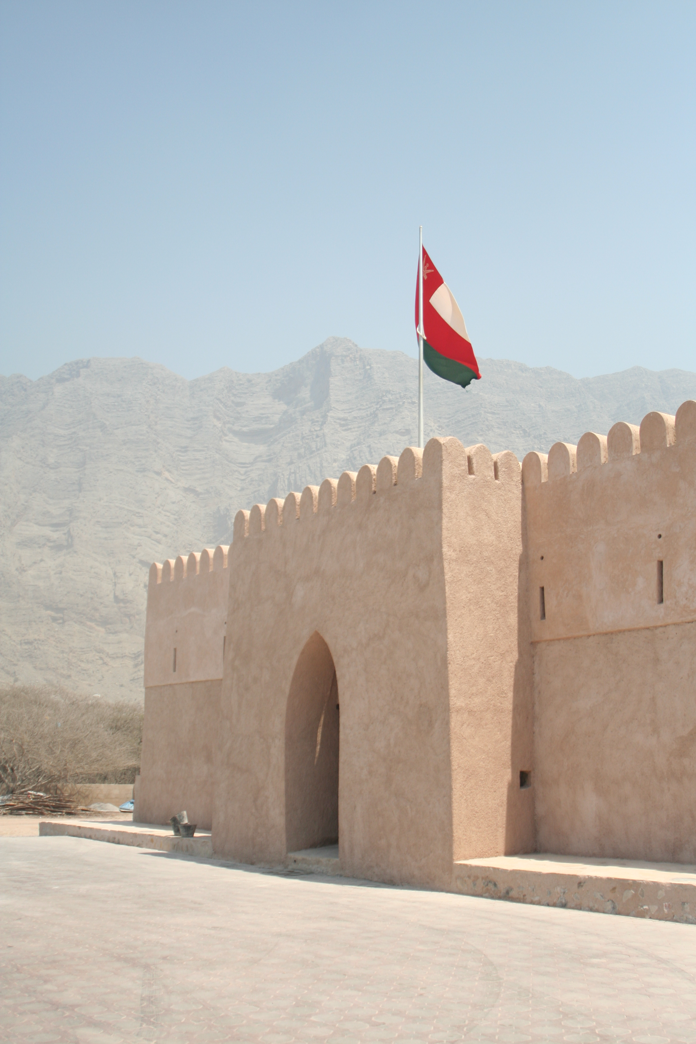 Visitor's center for Bukha Castle in Oman.